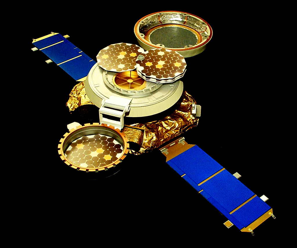 Genesis spacecraft in collection mode. Artist's conception courtesy of JPL.